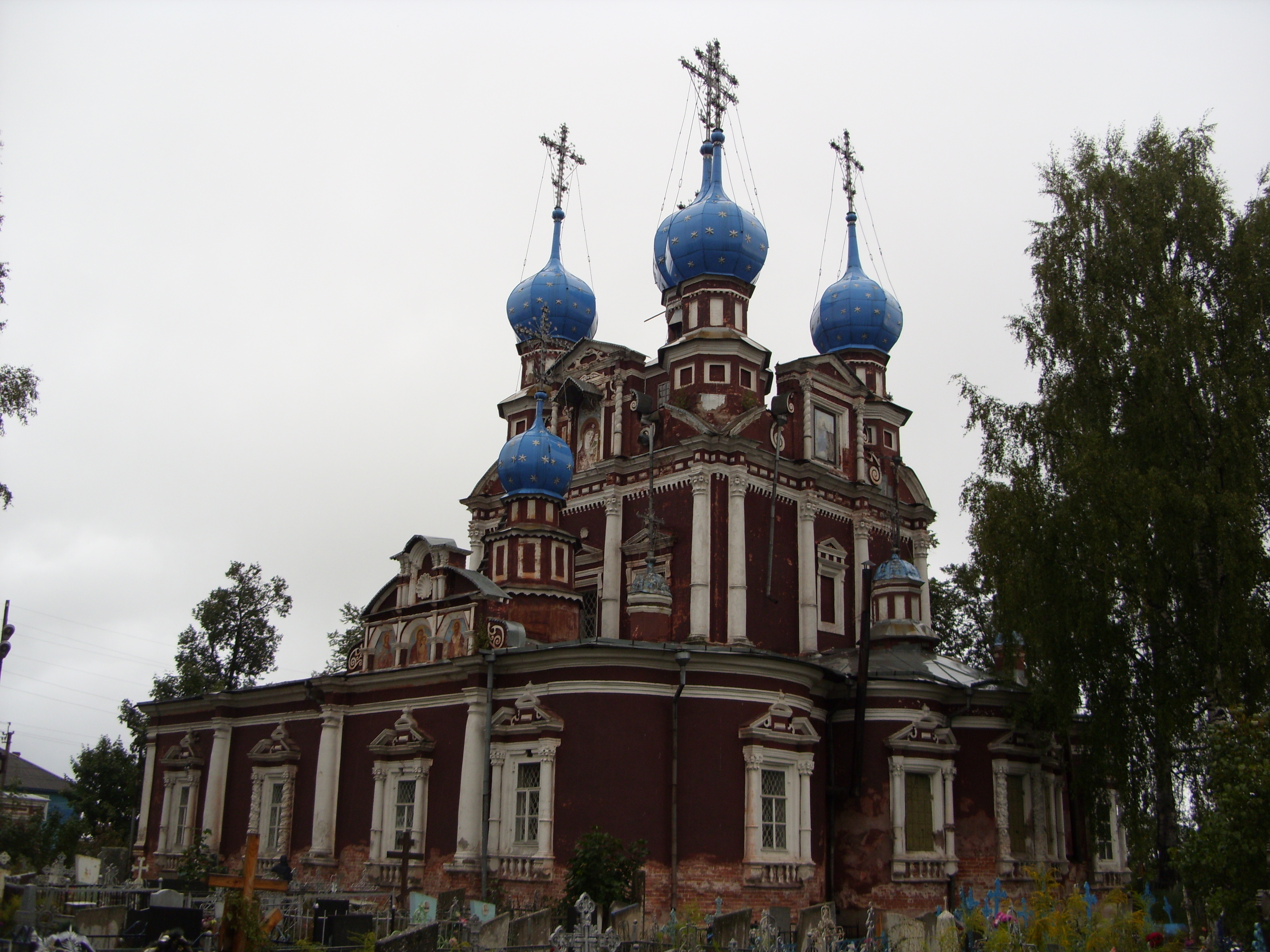 Ustyuzhna Kazanskaja